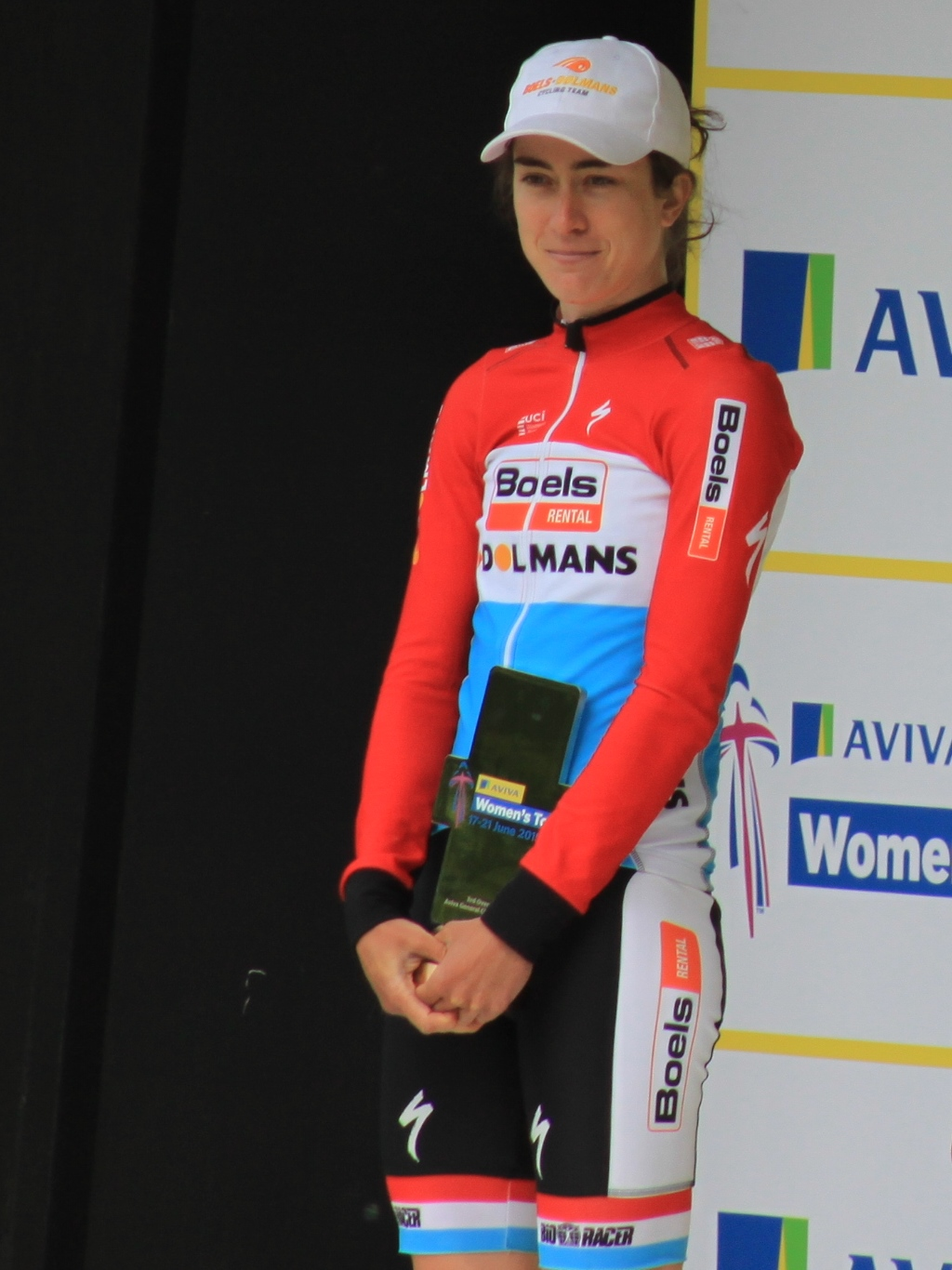 Christine Majerus came thrid in The 2015 Women's Tour and her Boels Dolman team won the team competition.